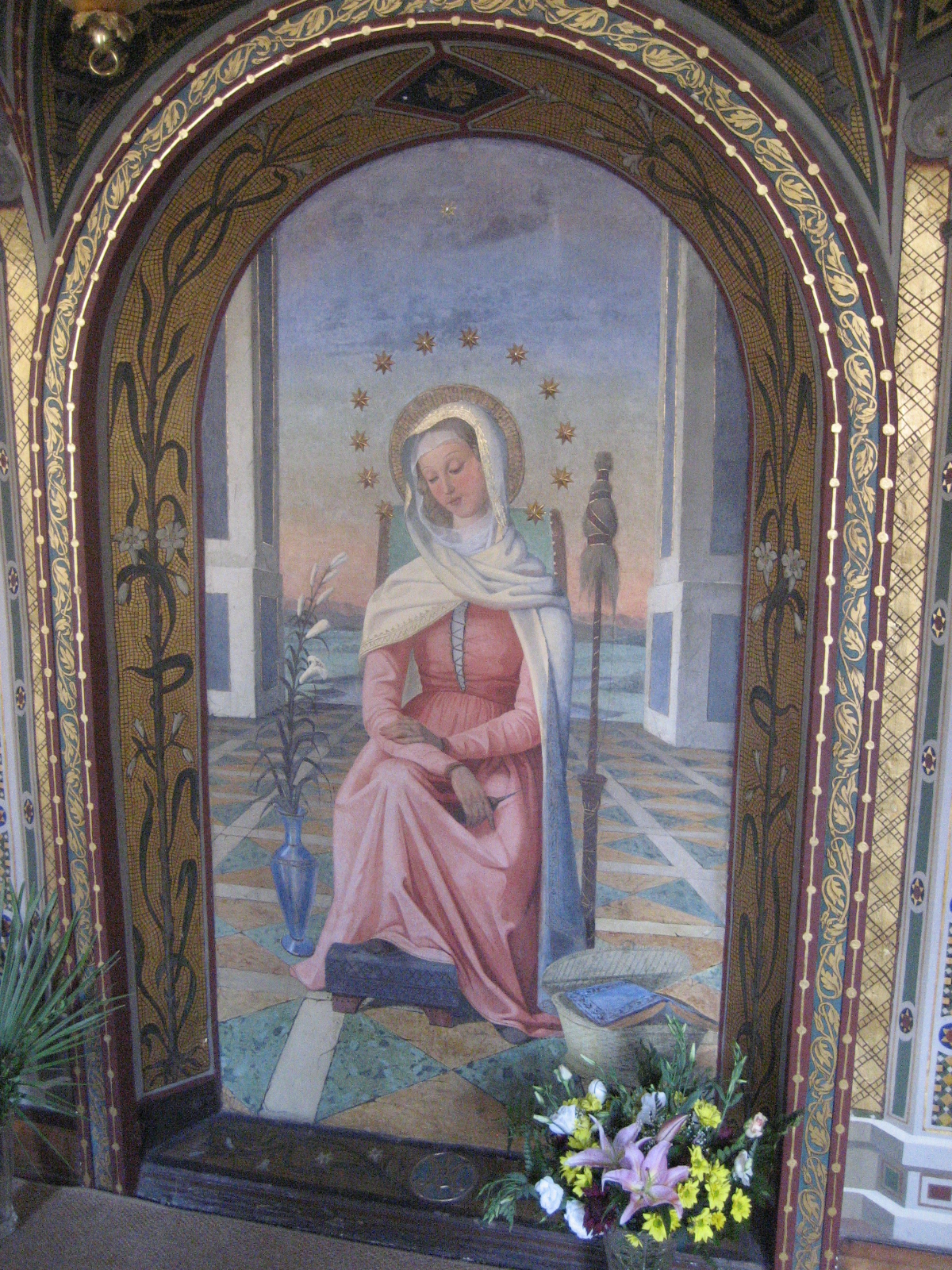 Mater Admirabilis original fresco in Rome